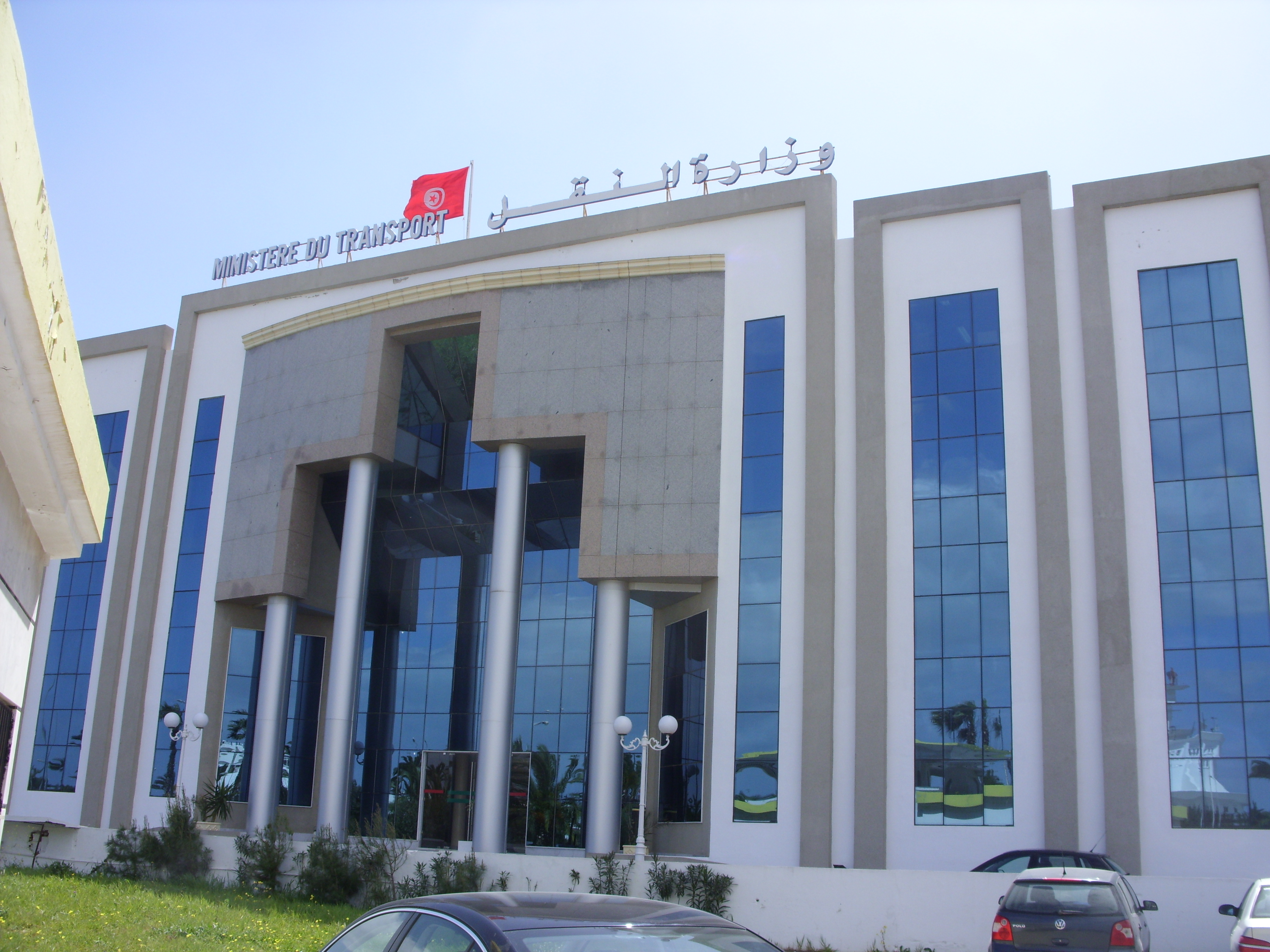 Tunisian Ministry of Transport Headquarters